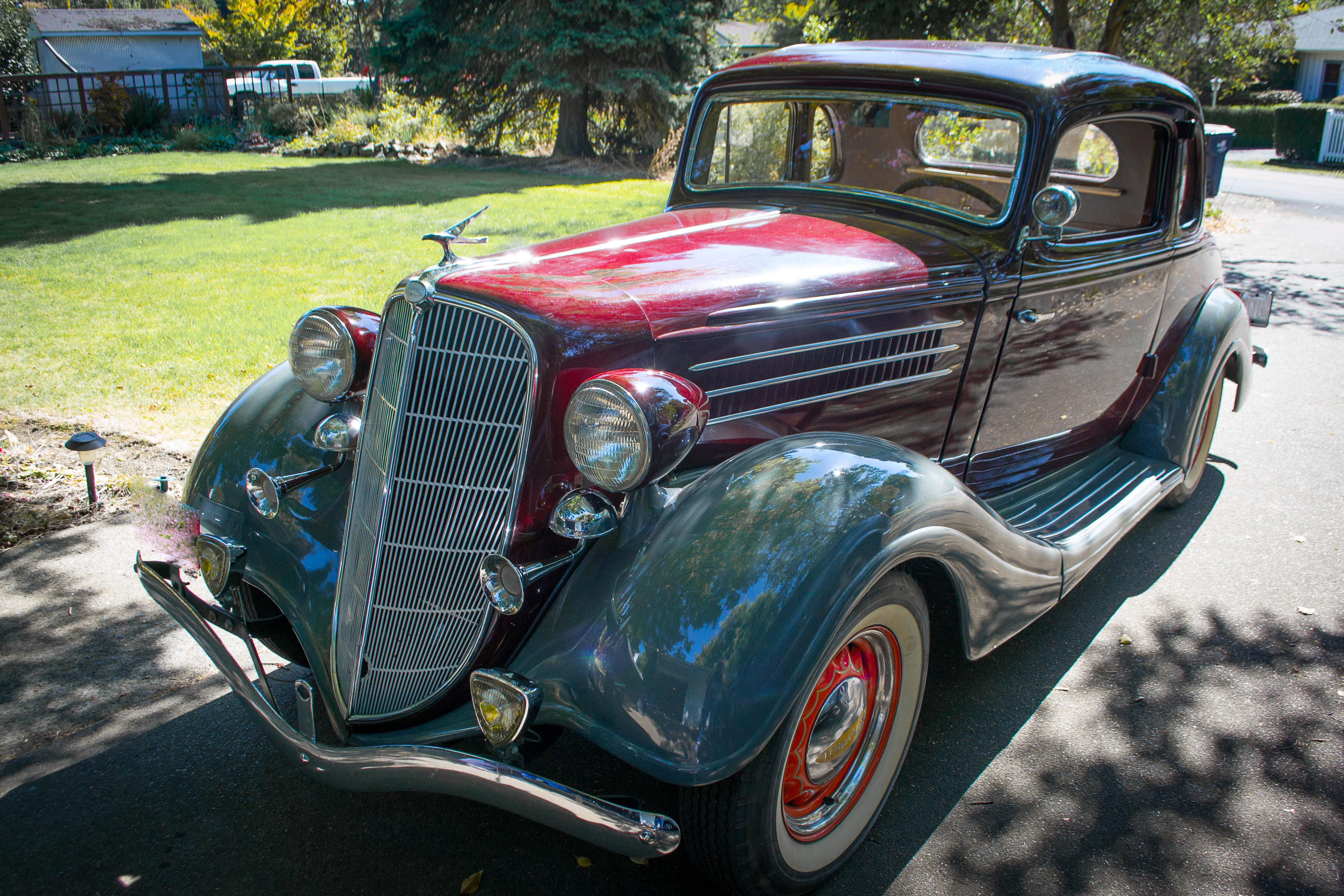 Left front